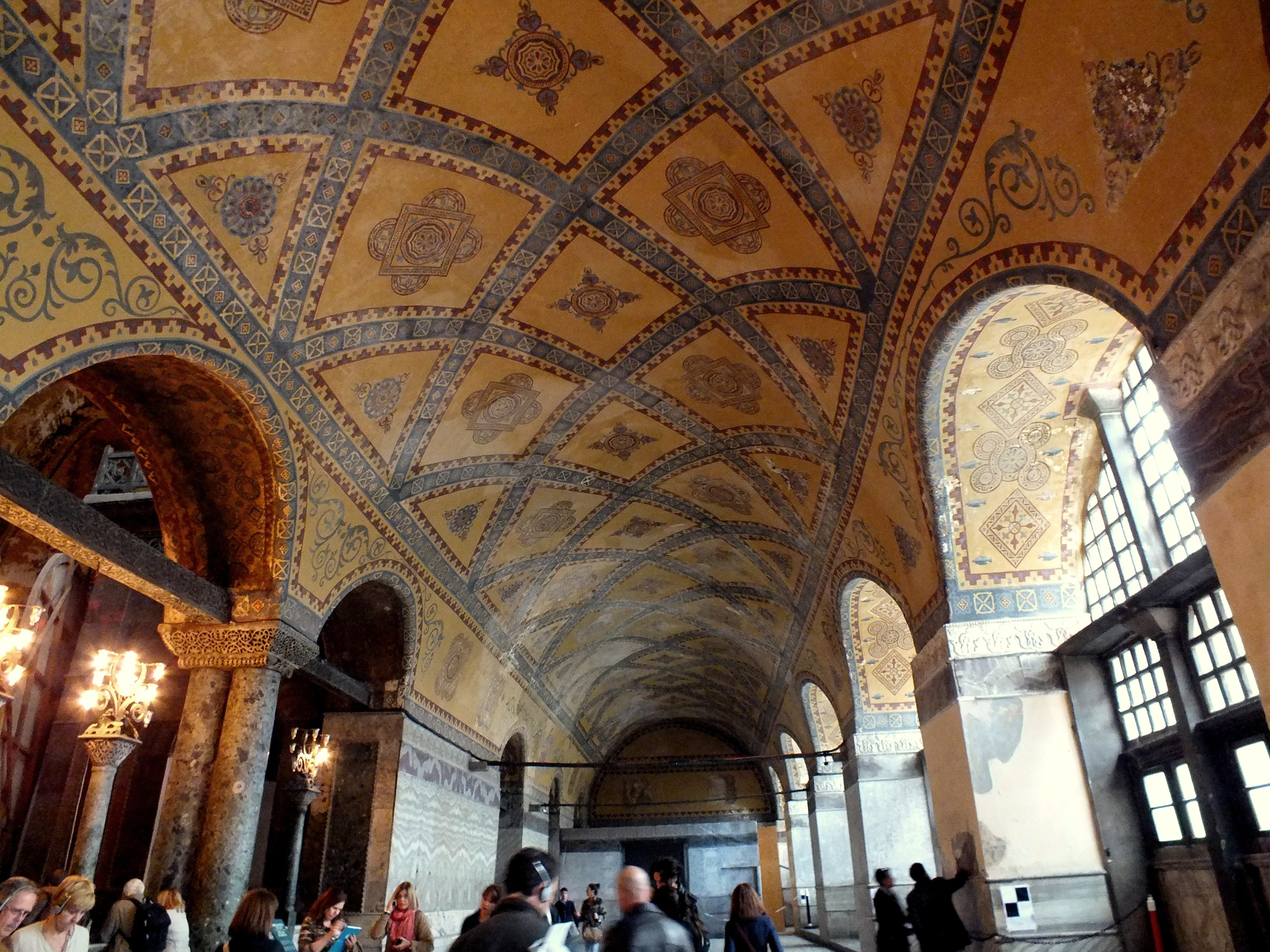 Mosaics with geometric pattern decorate the upper imperial gallery